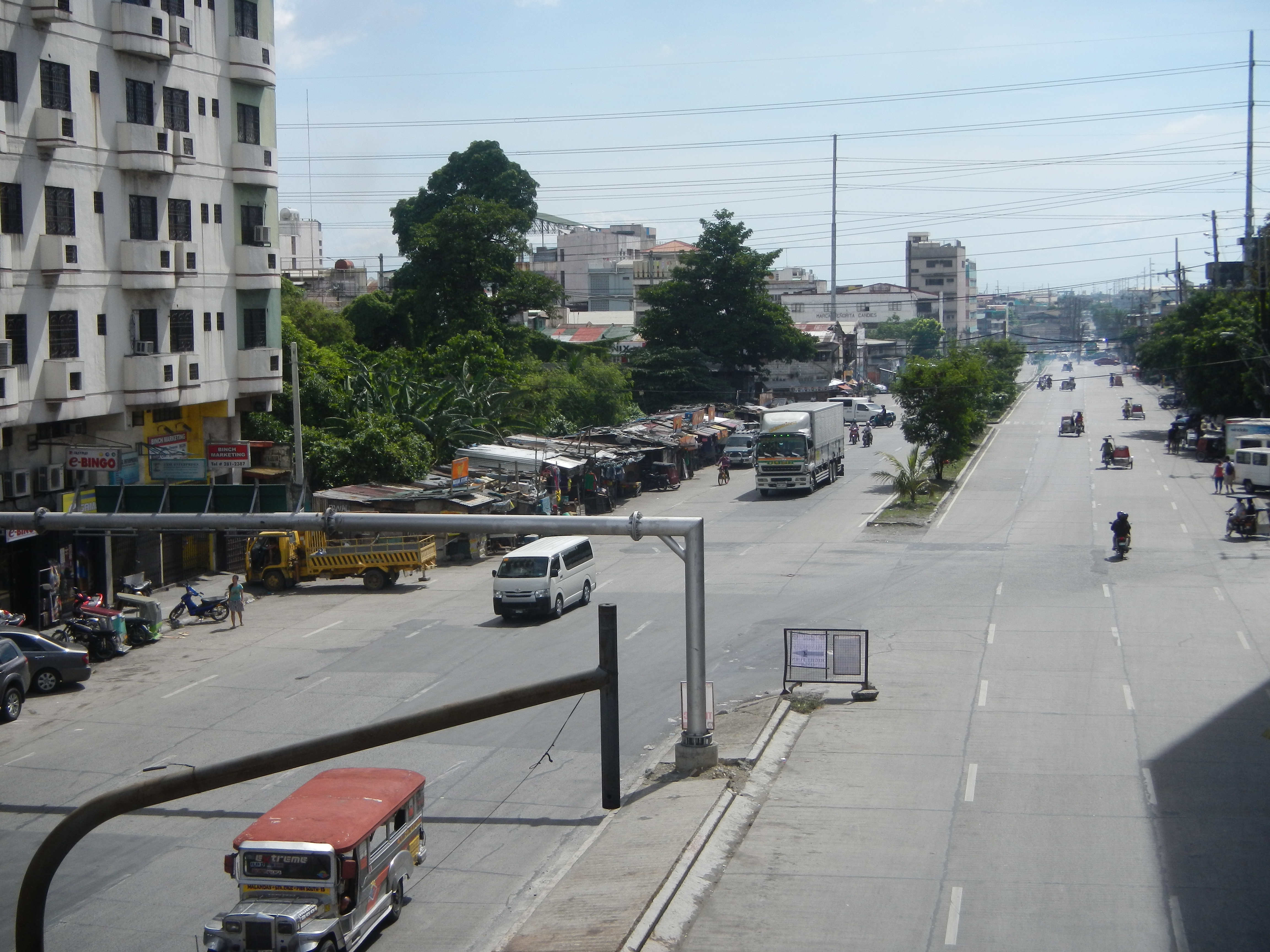 Circumferential Road 3 (Caloocan City section) 5th Avenue LRT Station Caloocan City along Circumferential Road 3, (Light Rail Transit Authority Vertical Clearance, 4.30 meters, Buildings in Caloocan City, List of roads in Metro Manila, 5th Avenue corner Rizal Avenue Extension, Grace Park, from 1st Avenue, to Rizal Avenue.